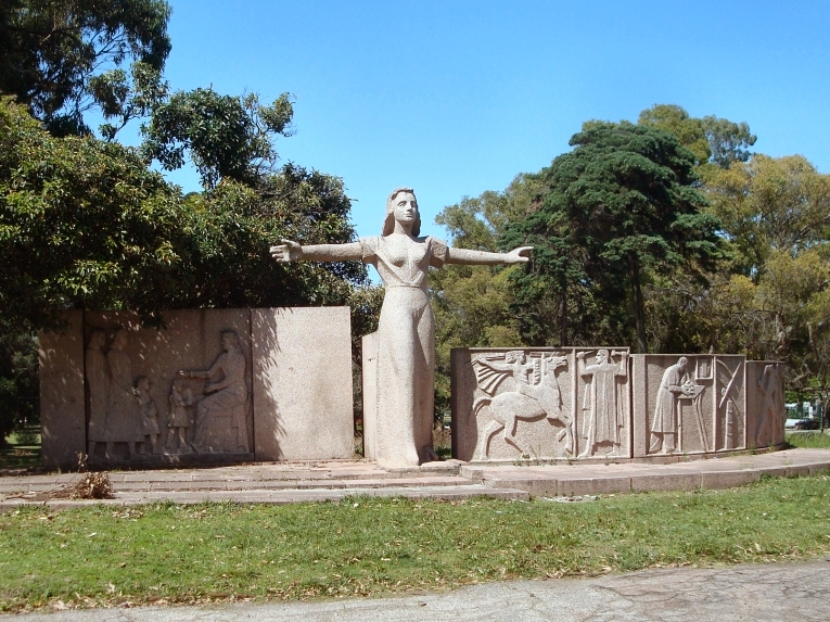 Monumento a la Maestra, Parque Batlle, Montevideo, Uruguay.